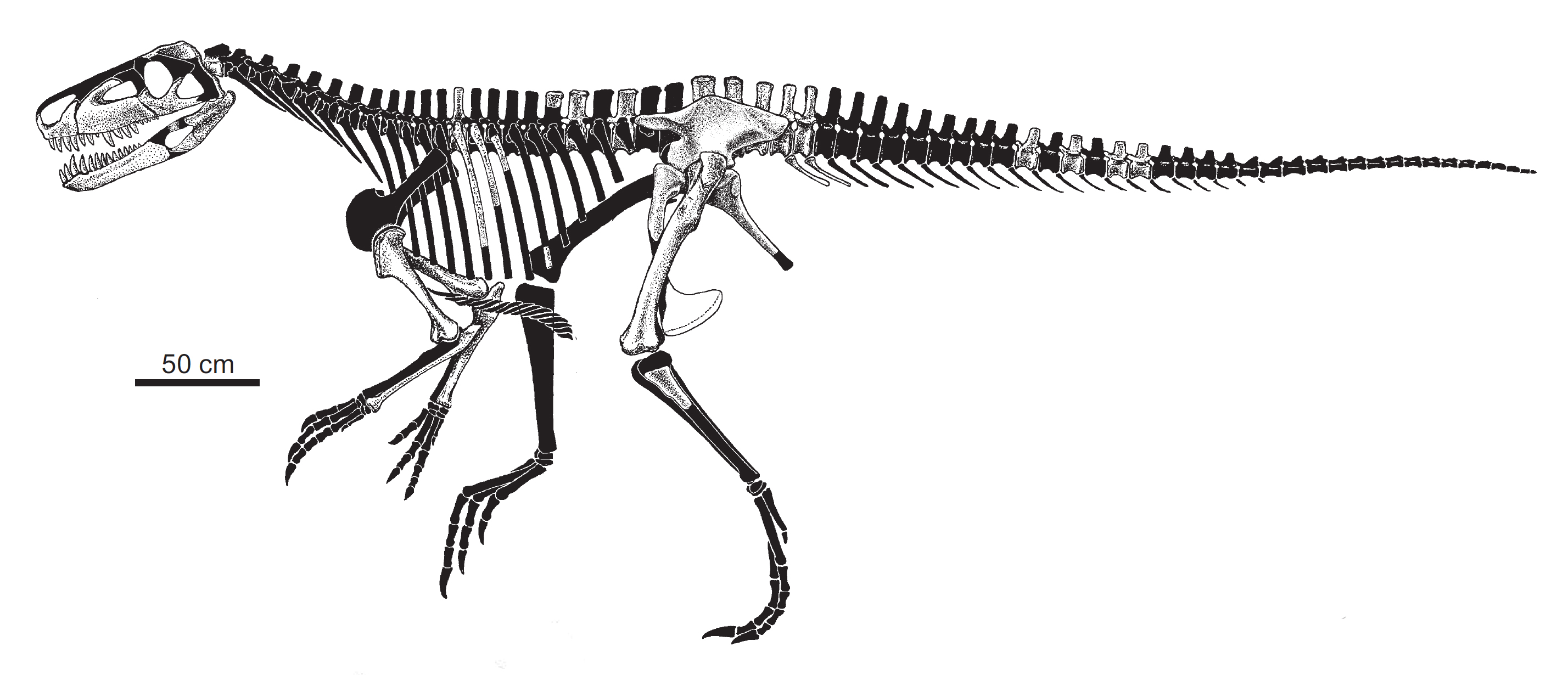 A predatory archosaur Smok wawelski gen. et sp. nov., Lisowice (Lipie Śląskie clay−pit), Late Triassic (lates Norian–early Rhaetian).